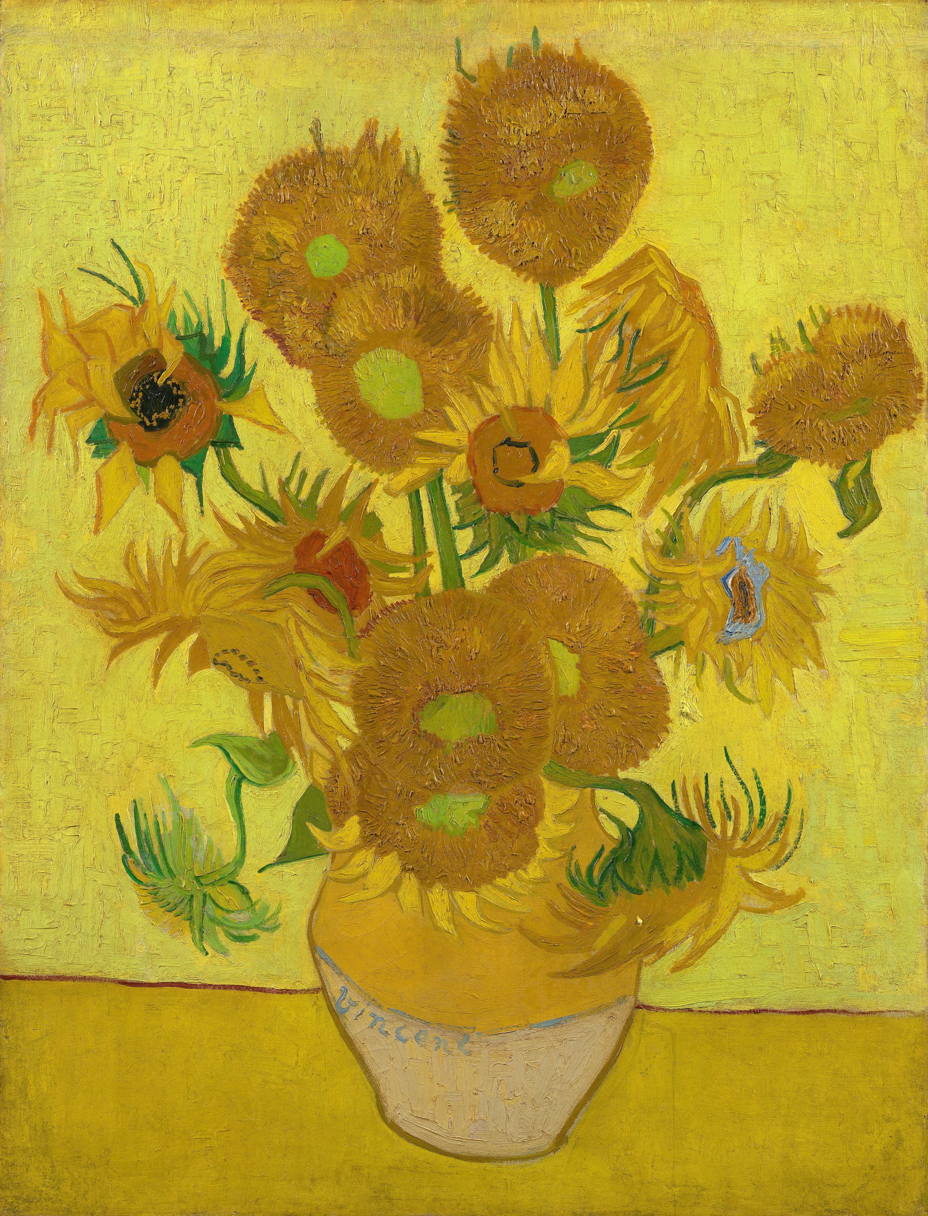 Info